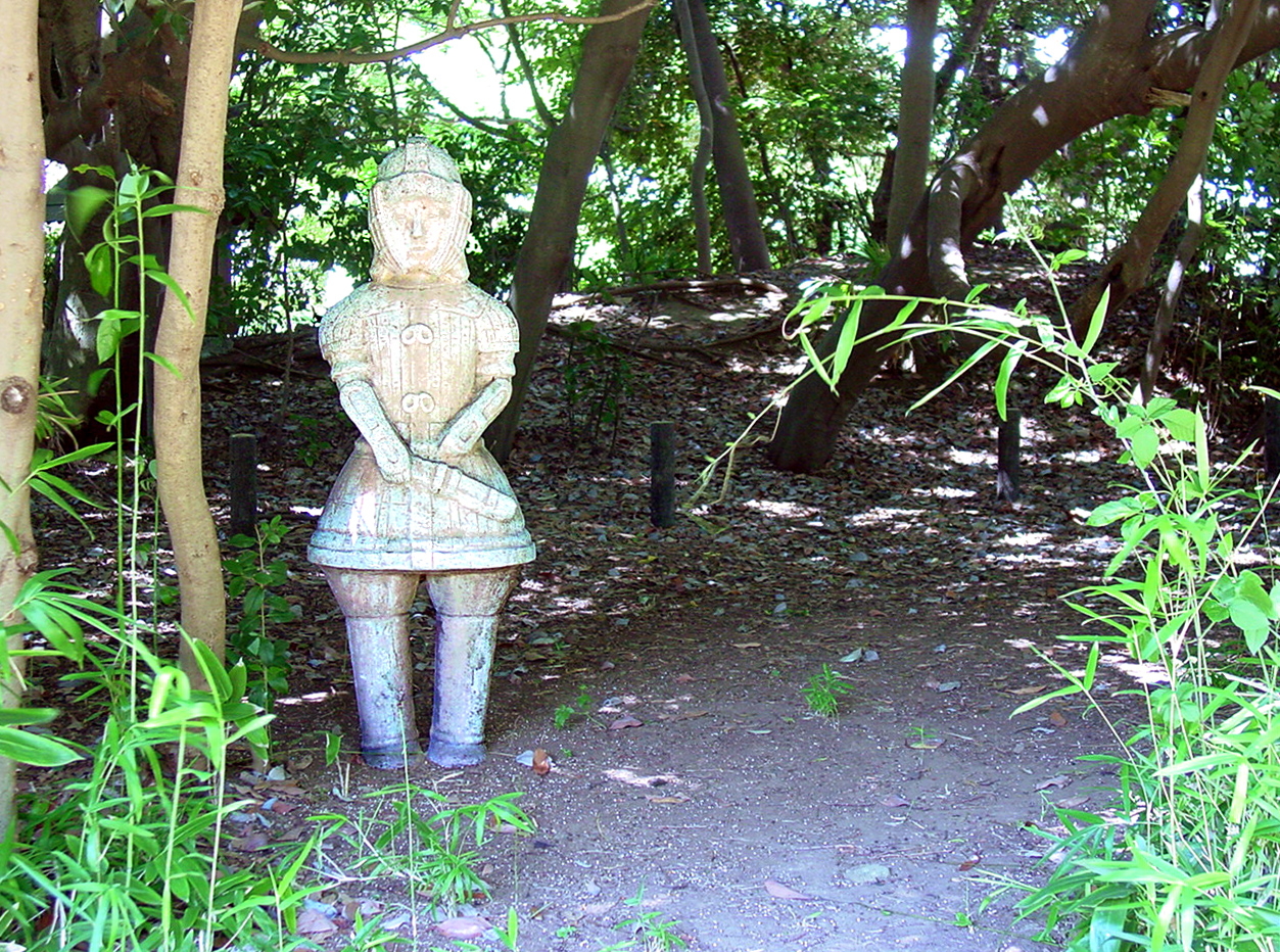 Saginuma A Tomb